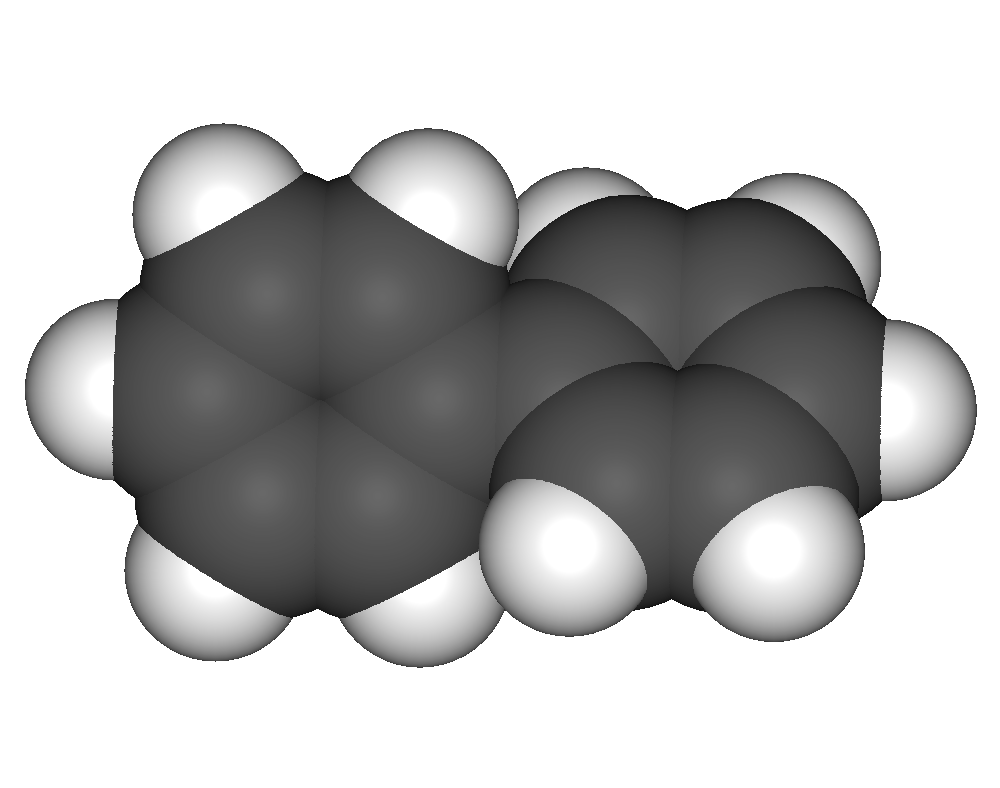 chemical structure of biphenyl